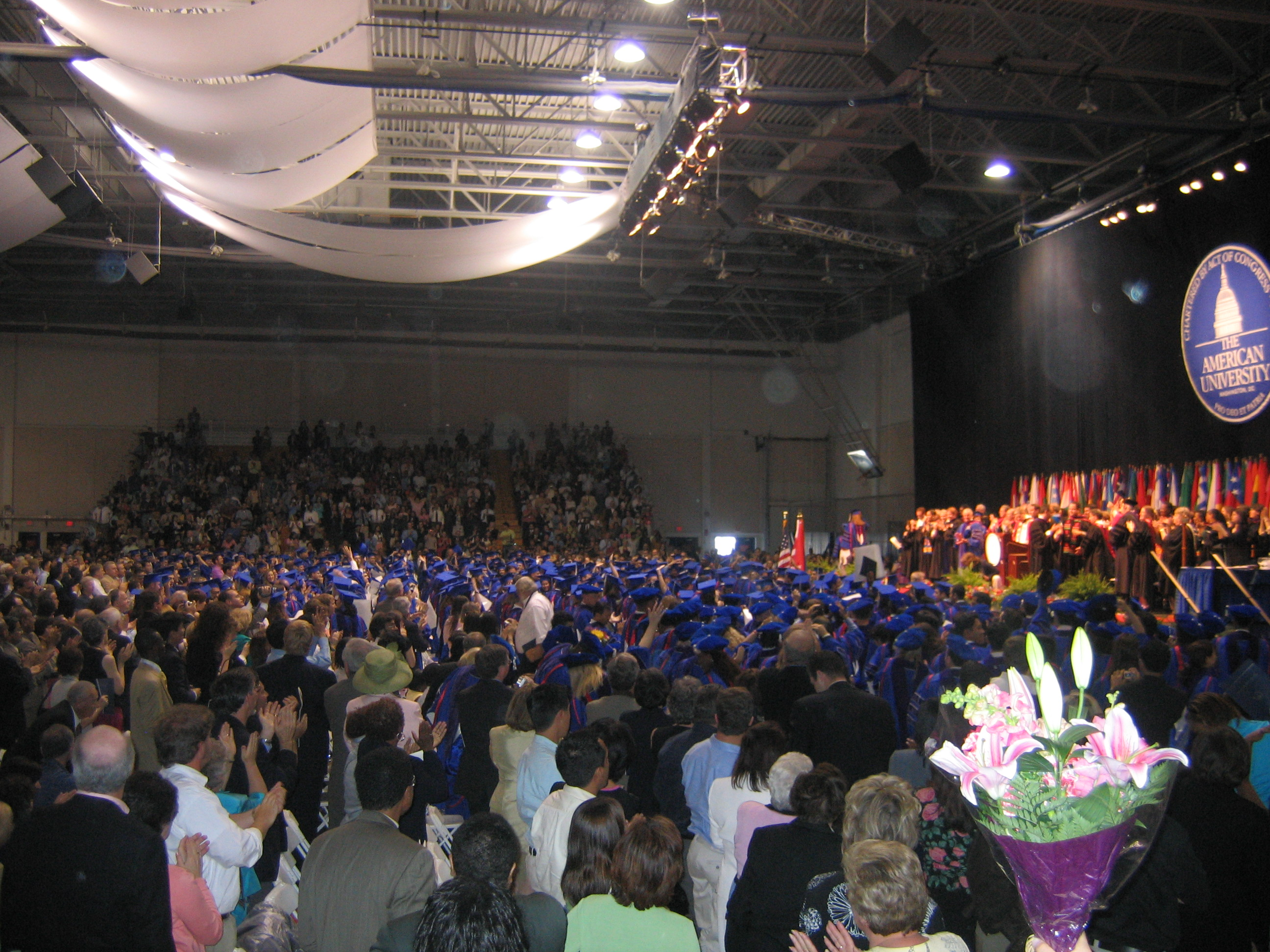 The processional always gets me a little choked up.